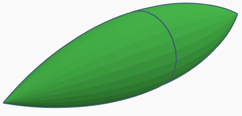 A figure with prolate lemon geometry. Reference: Weisstein, Eric W.. Lemon. Wolfram MathWorld. Retrieved on 2019-11-04. Made in Tinkercad